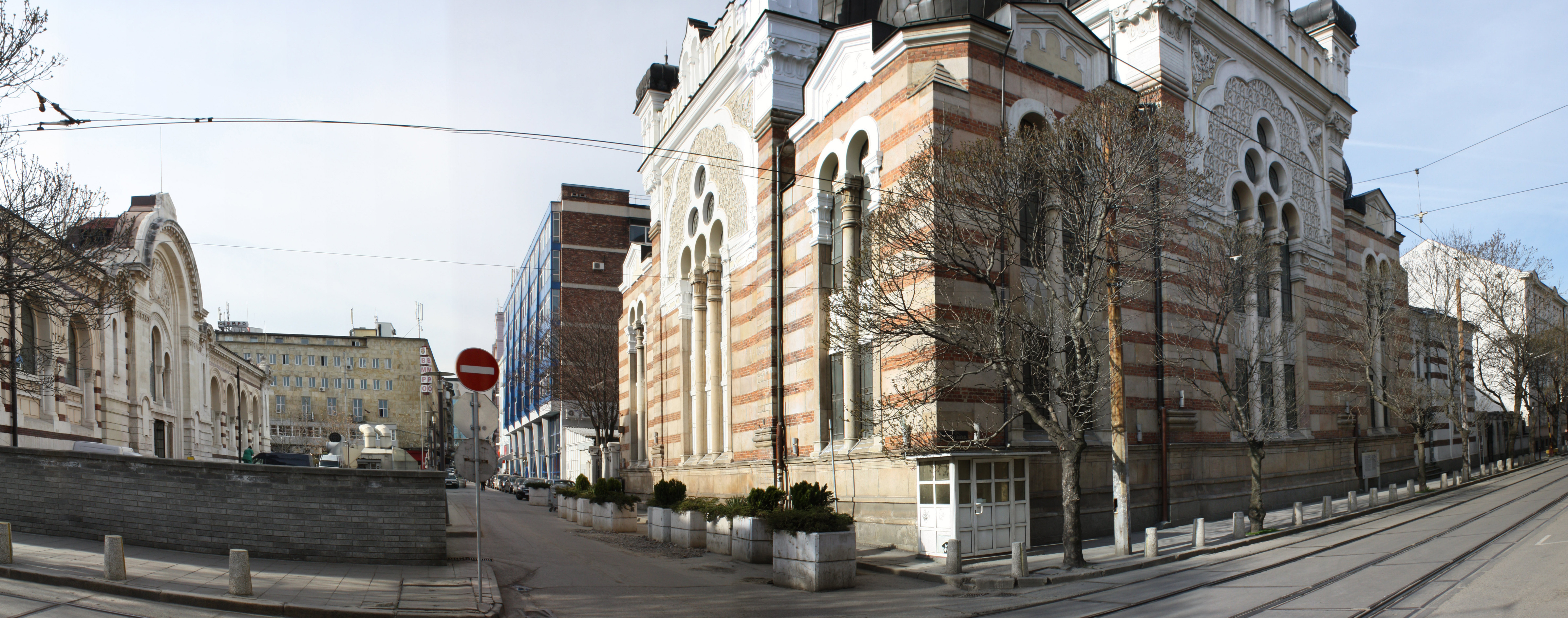 Synagogue in Sofia, Sofia, Bulgaria